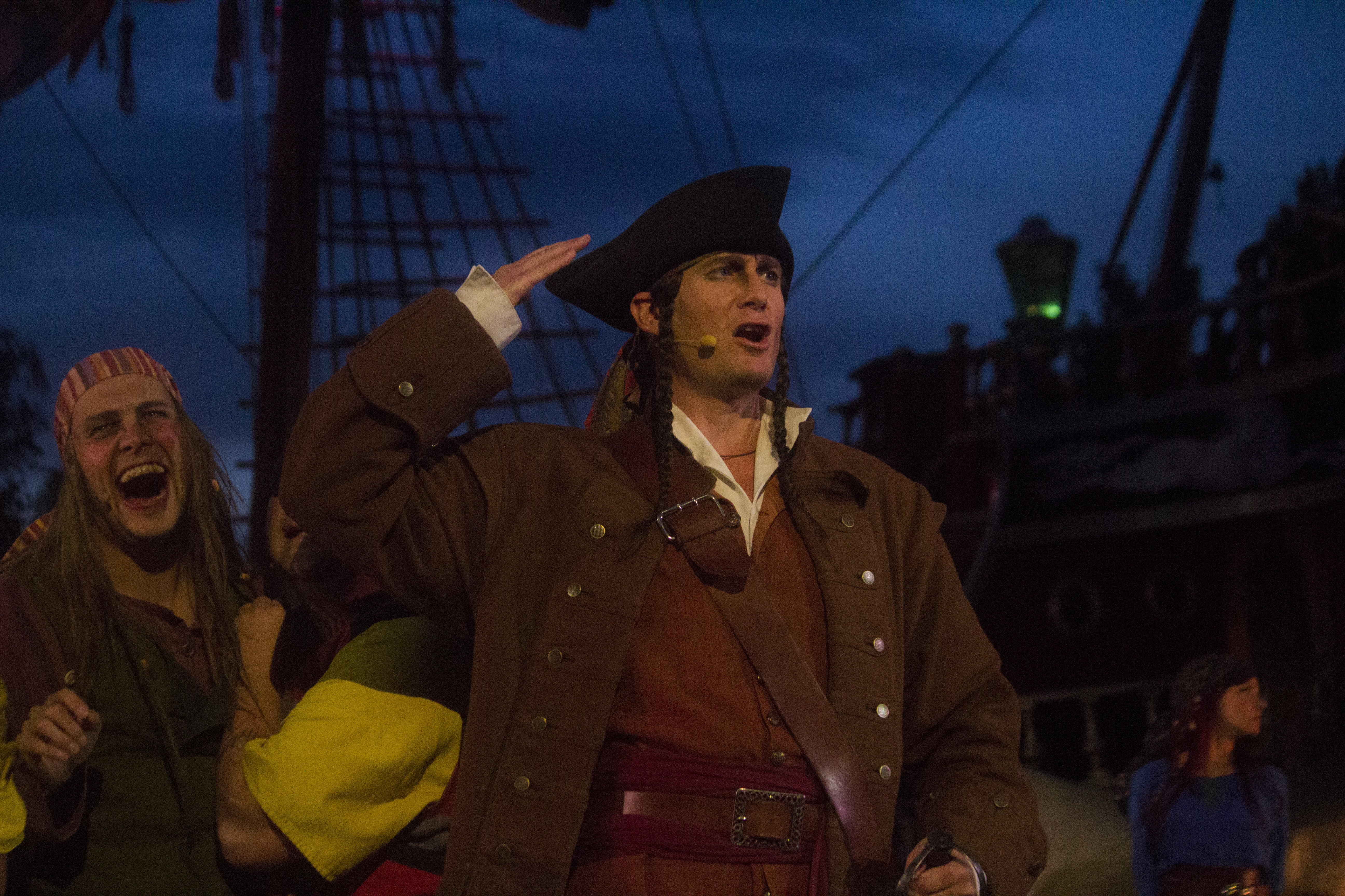 Frode Winther as Langemann in Kaptein Sabeltann og Den Forheksede Øya